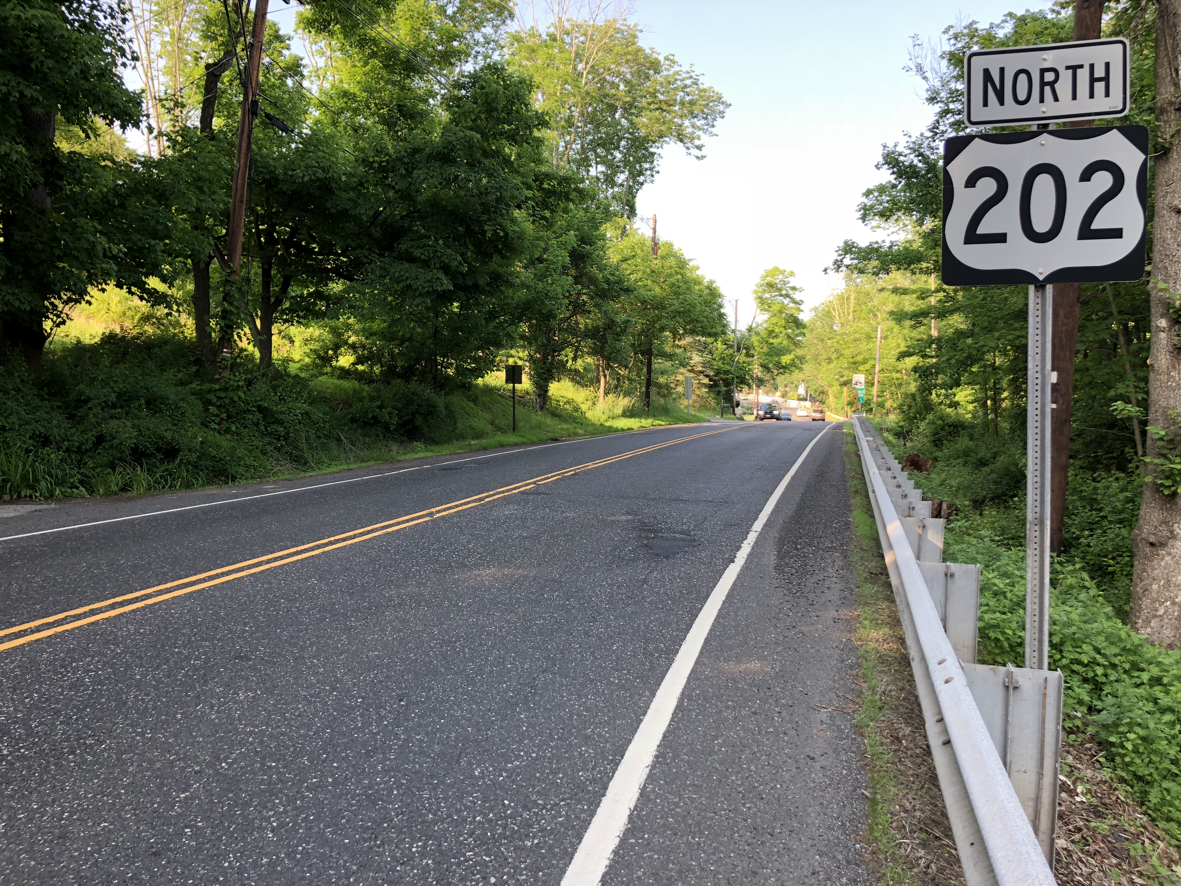 View north along U.S. Route 202 (Mine Brook Road) at Whitenack Road in Bernardsville, Somerset County, New Jersey